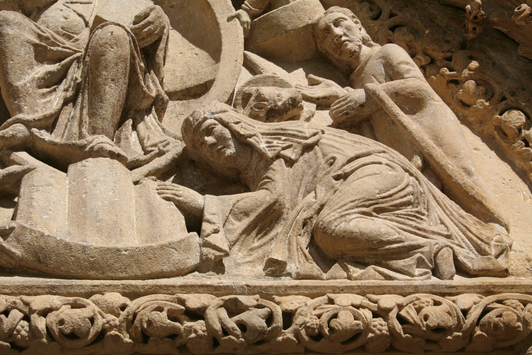 Konstancia of Hungary depicted at tympanon of portal, church at Cistercians's monastery Porta Coeli, Předklášteří, the Czech Republic